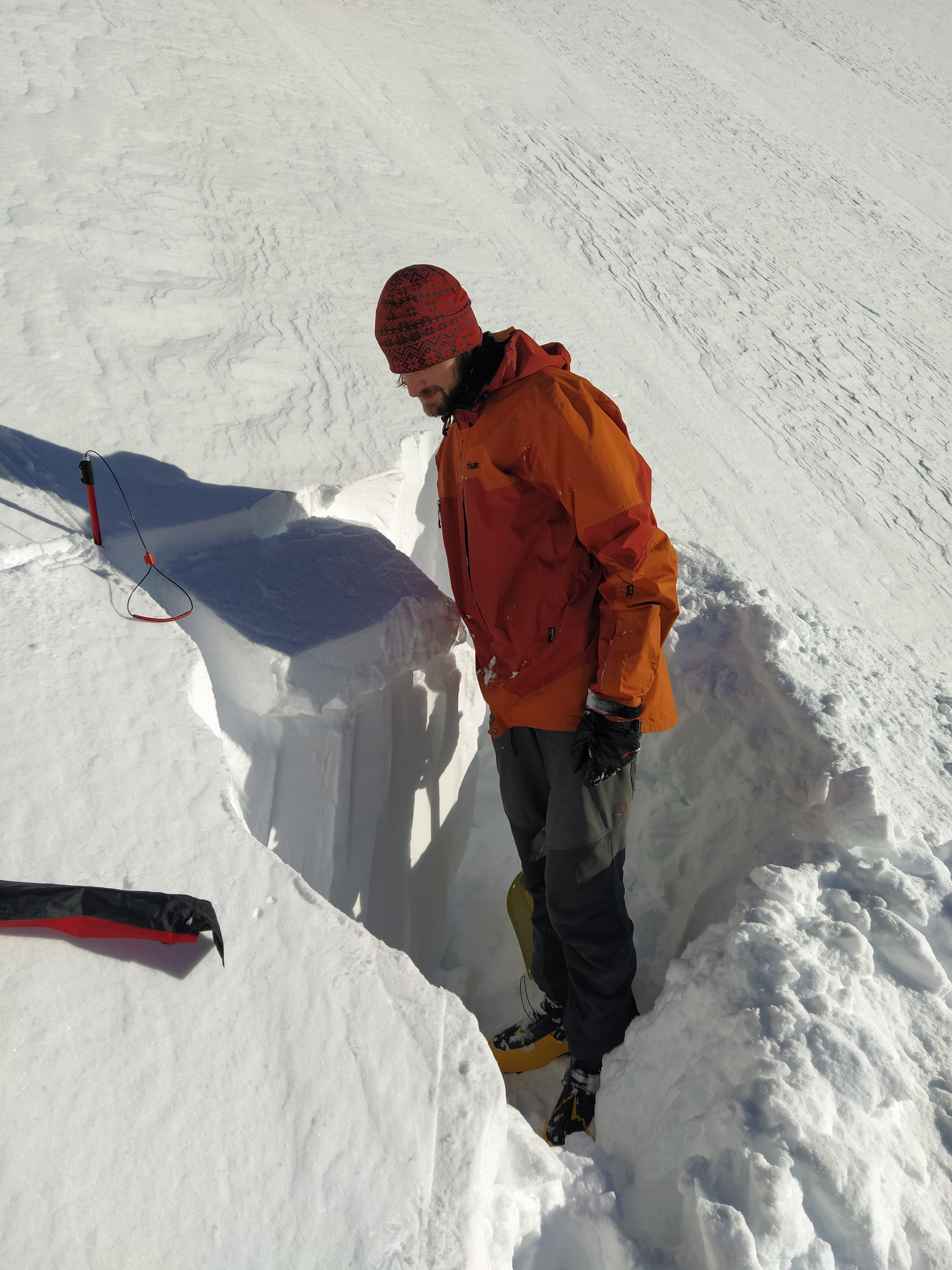 Snow block 90 cm horizontally and 30 cm upslope after procedure of Extended Column Test (ECT)